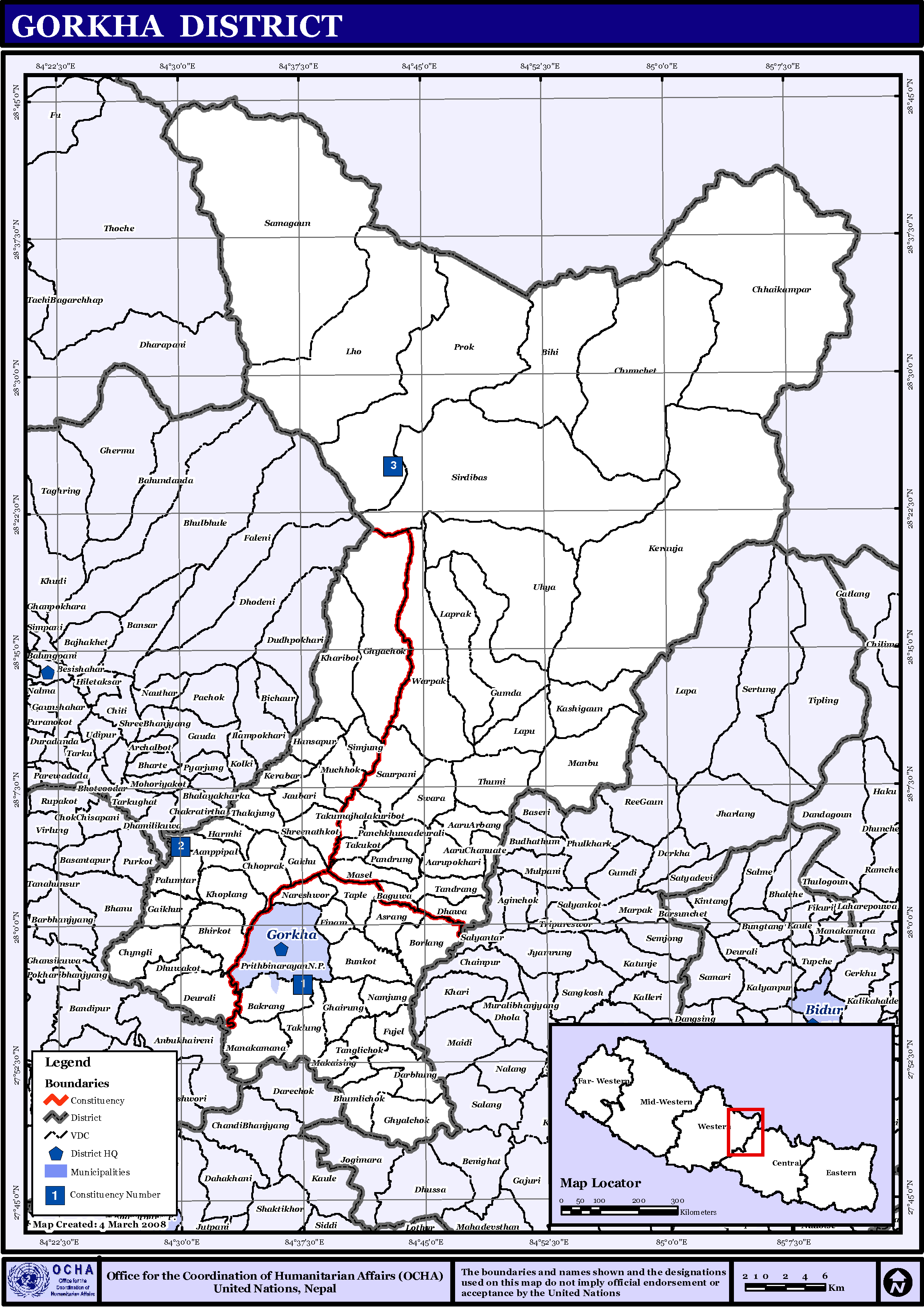 Map displaying Village Development Committees in Gorkha District, Nepal